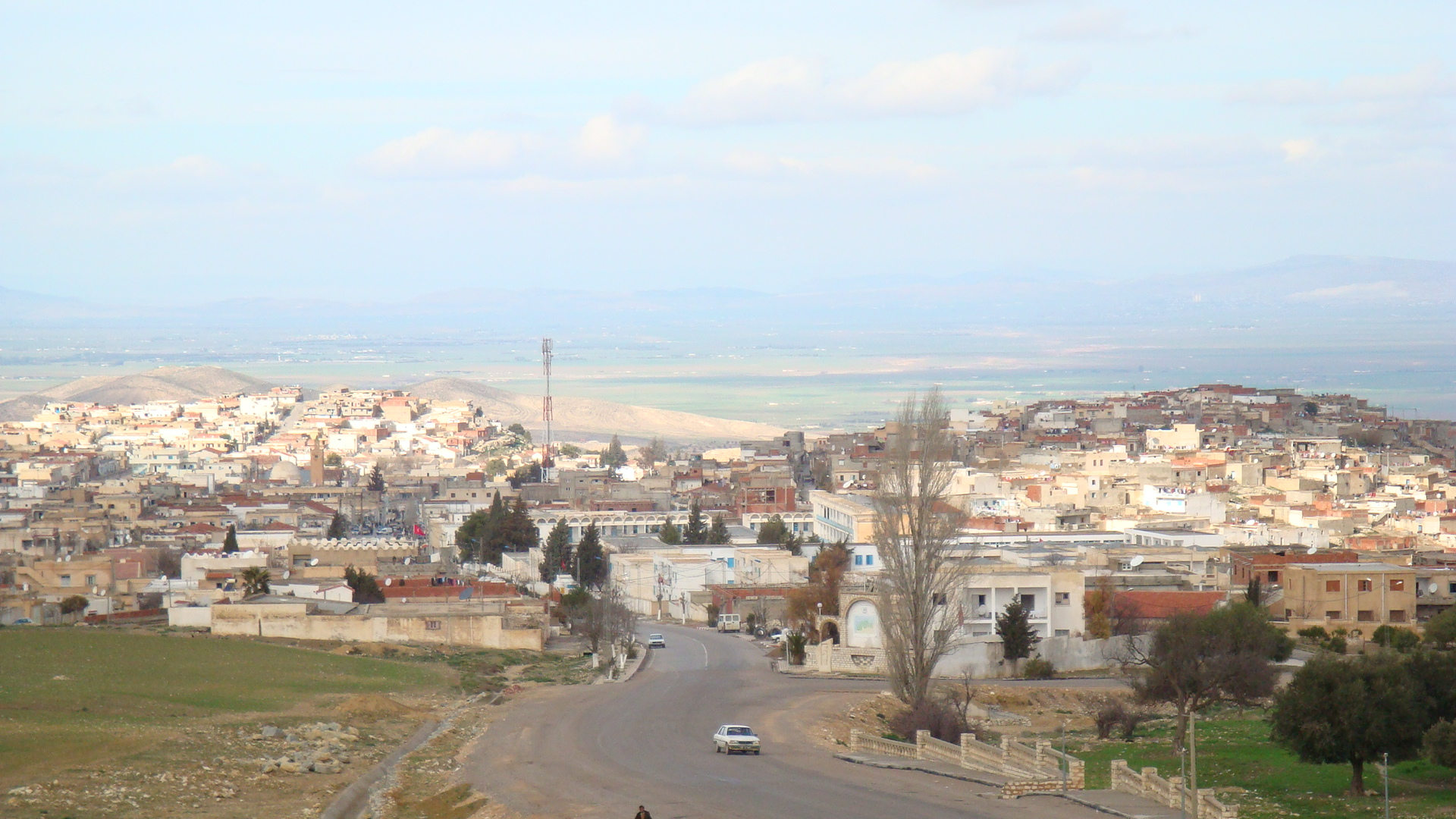 The two principal hills on which is built the city of Thala (Nadhour and Najaria)